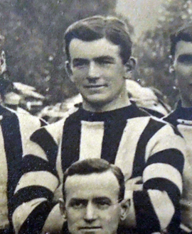 Photograph of Lindsay Bristow in 1909